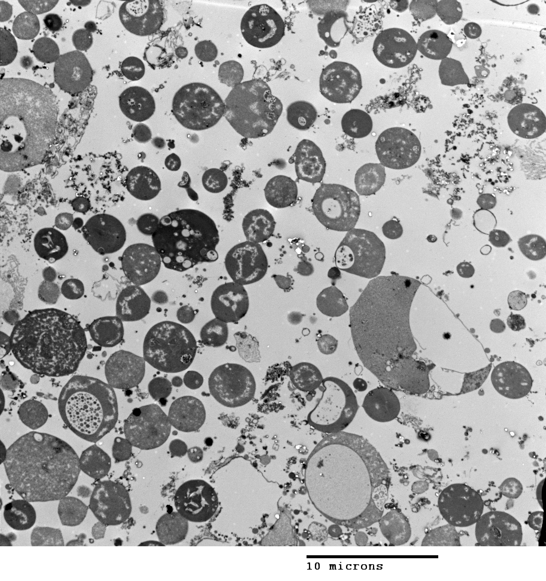 Wide feild transmission electron micrograph of L-form (cell wall deficient) bacteria derived from Bacillus subtilis.